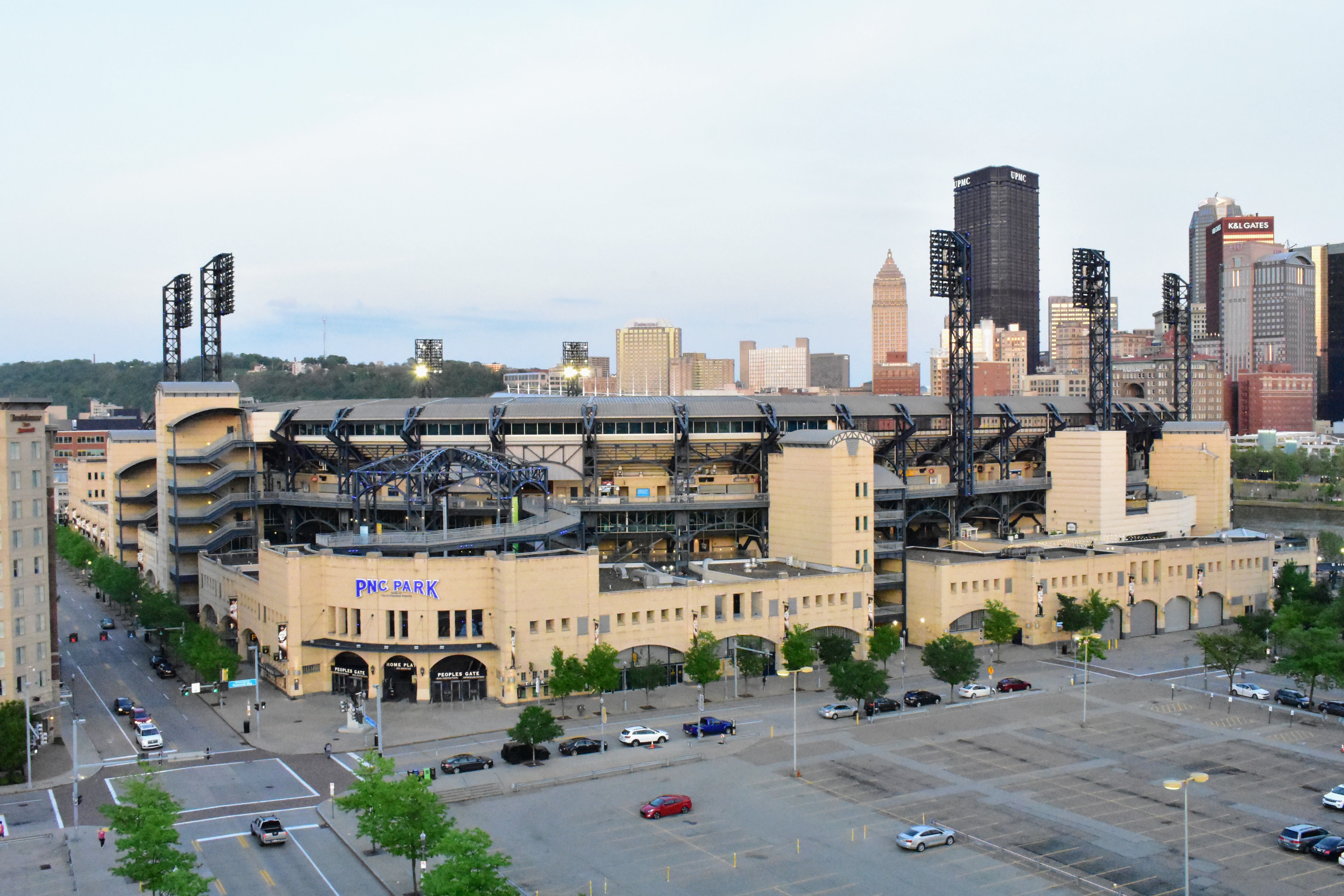 A view of PNC Park in Pittsburgh, Pennsylvania at dusk, as seen from the rooftop of the West General Robinson Street Garage